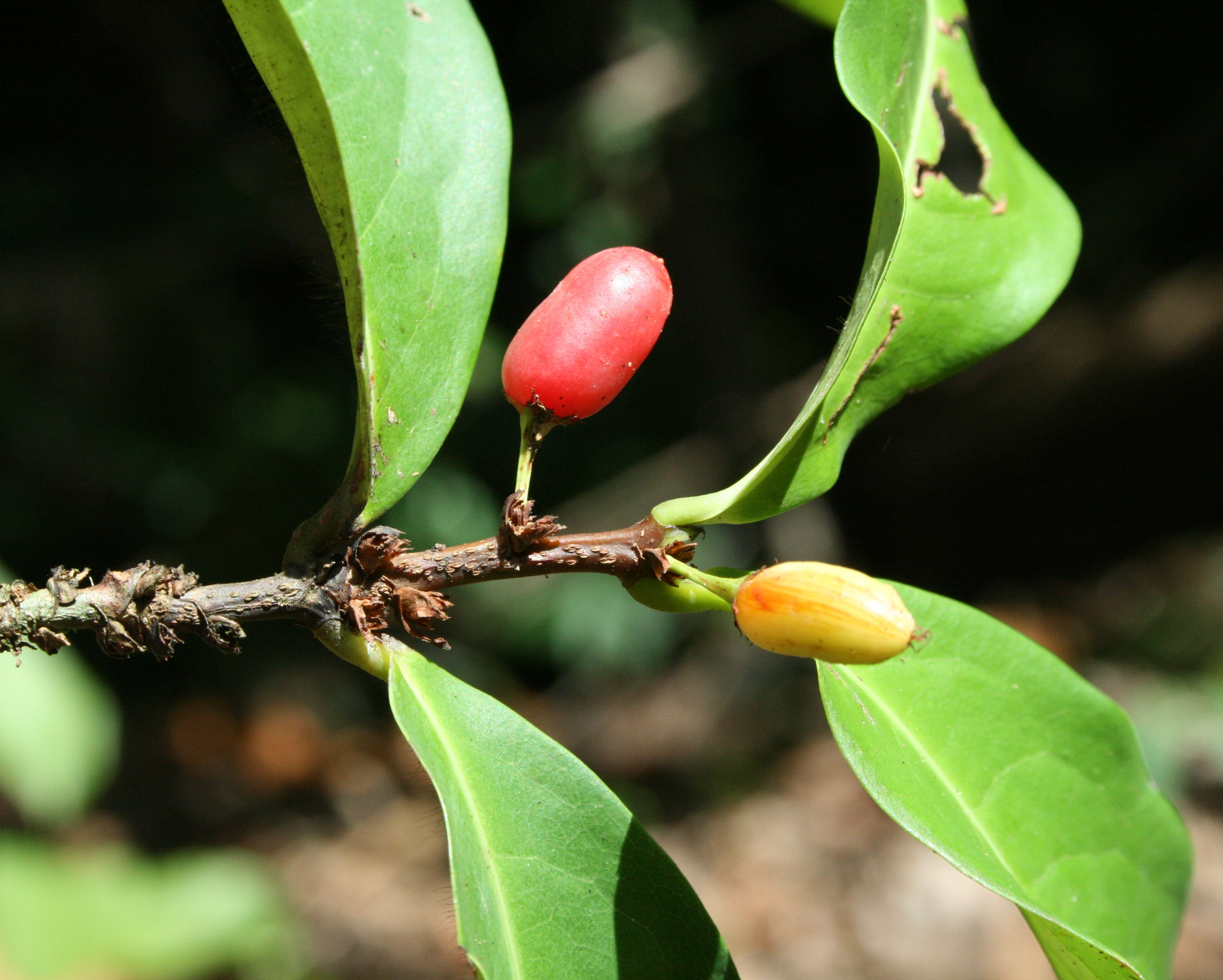 Fruiting branch of the Erythroxylum kapplerianum, Rio Nicharé, Venezuela